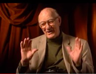 Photograph of Robert Panara